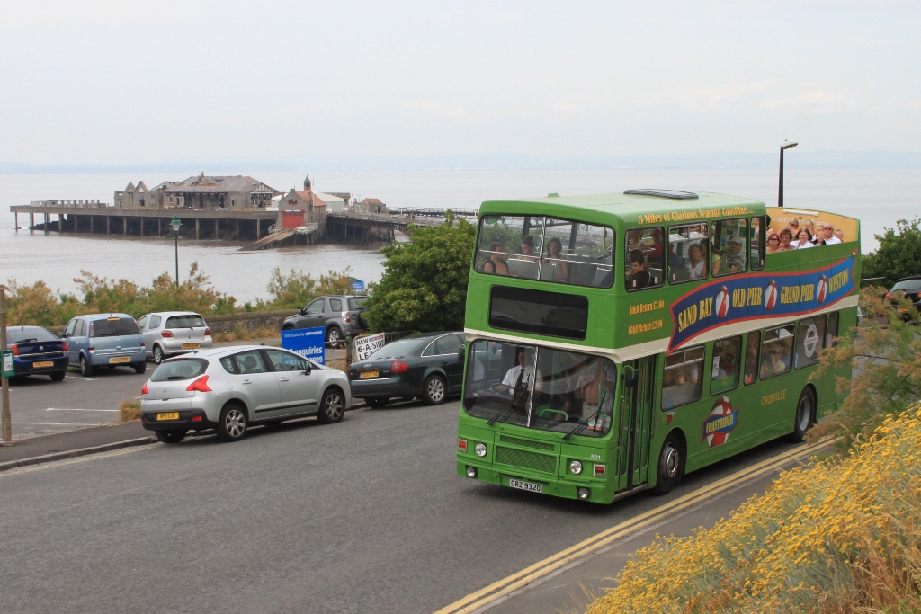 Crosville Motor Services' open top Olympian number 501 (originally registered E314 MSG but now carrying CRZ 9320) passes the Old Pier in Weston-super-Mare while on the service from Sand Bay to the town centre.